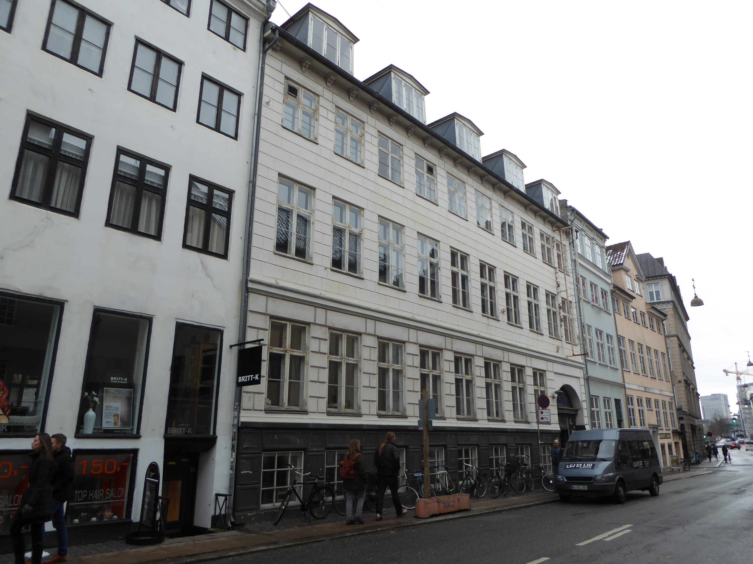 The culture house Huset-KBH (former Huset i Magstræde) at Rådhusstræde in Indre By in Copenhagen.